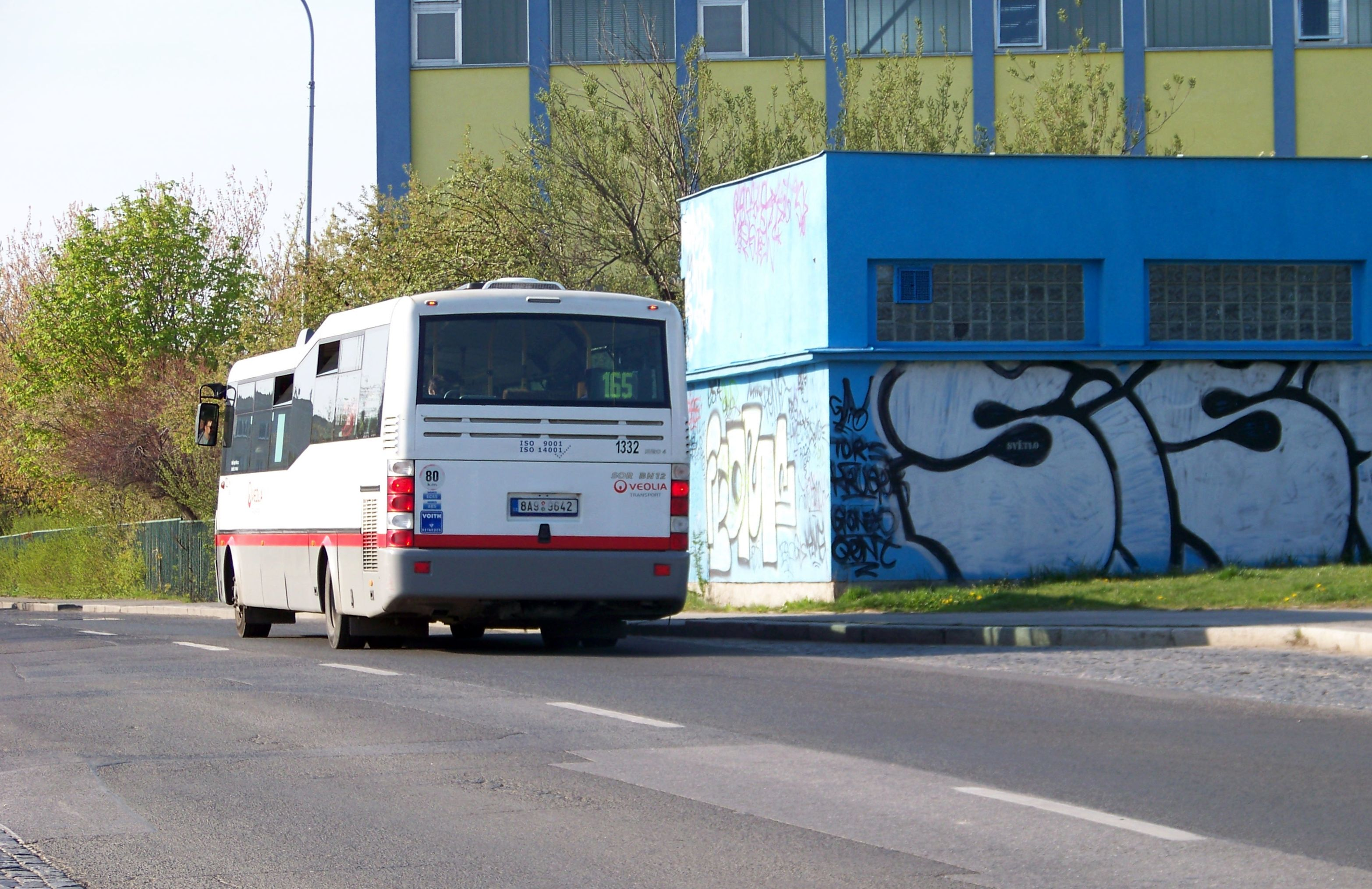 Háje, Prague, the Czech Republic. SOR BN 12 bus.